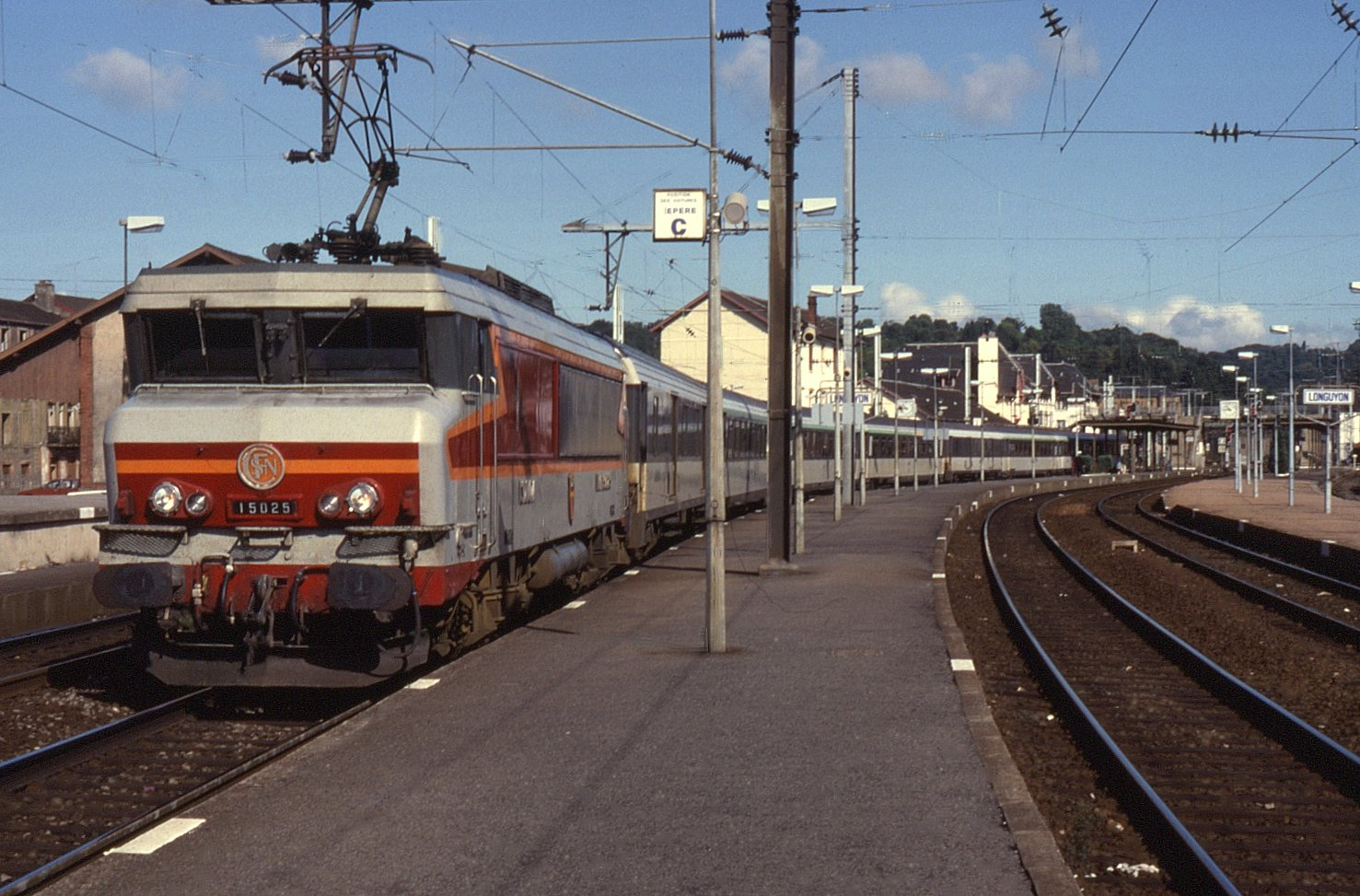 Another photo from a series of 6 uploaded in February 2012 depicting SNCF electric locos on pasenger trains. With its distinctive maroon, orange and grey livery and Paul Arzens "Nez Cassé" design, an example of class BB15000 is seen at Longuyon. Initially all allocated to Strasbourg depot, they were commonplace on passenger trains in Eastern France. Nowadays with the introduction of TGVs the work has thinned out their use but can still be found in Northern France. On 3 September 1989, BB15025 was in charge of a train on the once important "La Transversale Nord-Est" route from Lille via Charleville-Mézières to Thionville. Long distance trains such the above from Calais through to Basel would take this route, albeit slow with several reversals have now gone in a system full of TGVs.